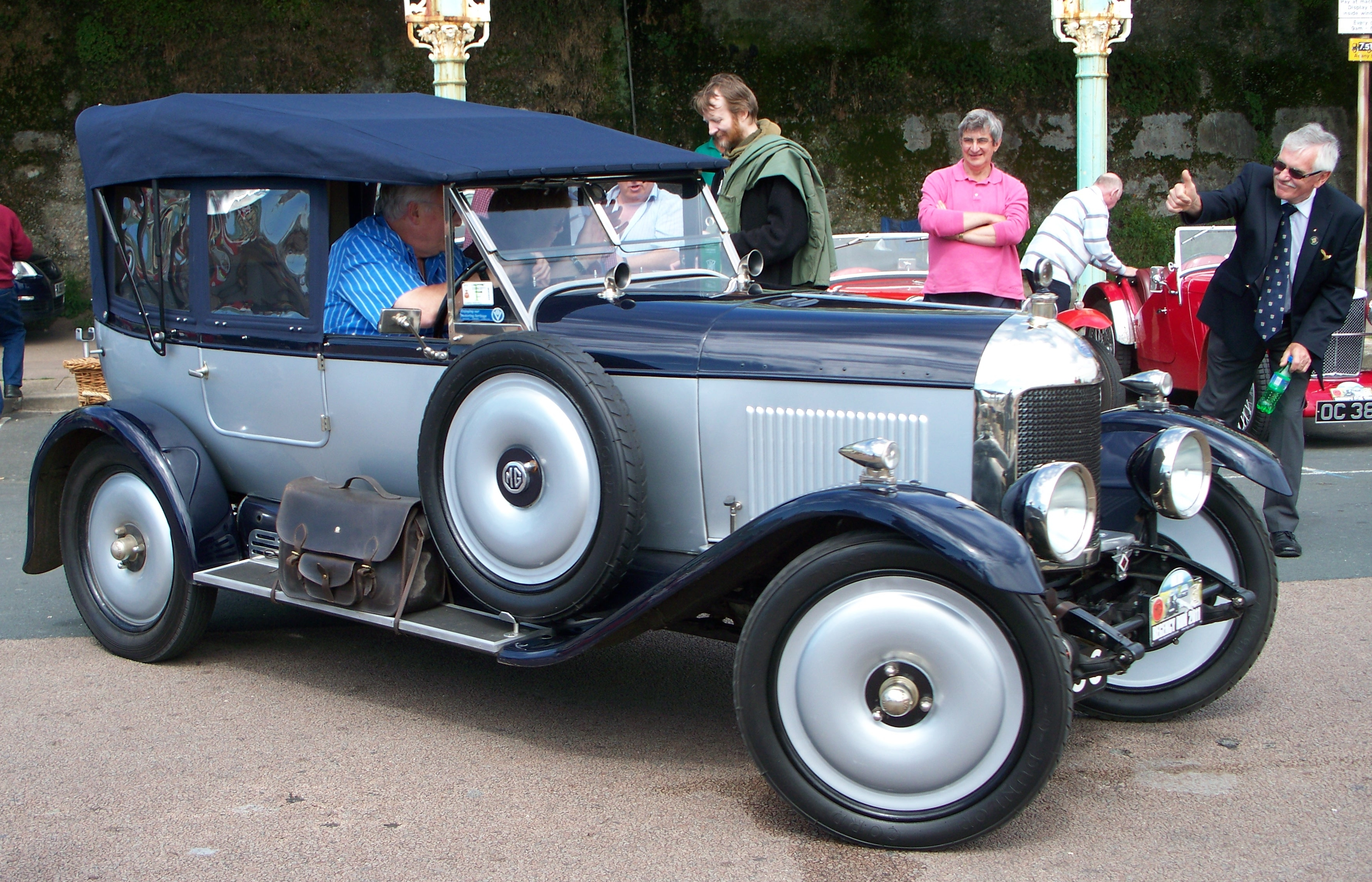 1925 MG Morris Oxford 4-seater tourer (DVLA) first registered 25 February 1925 on Madeira Drive at the finish of the 2011 MG Regency Run.